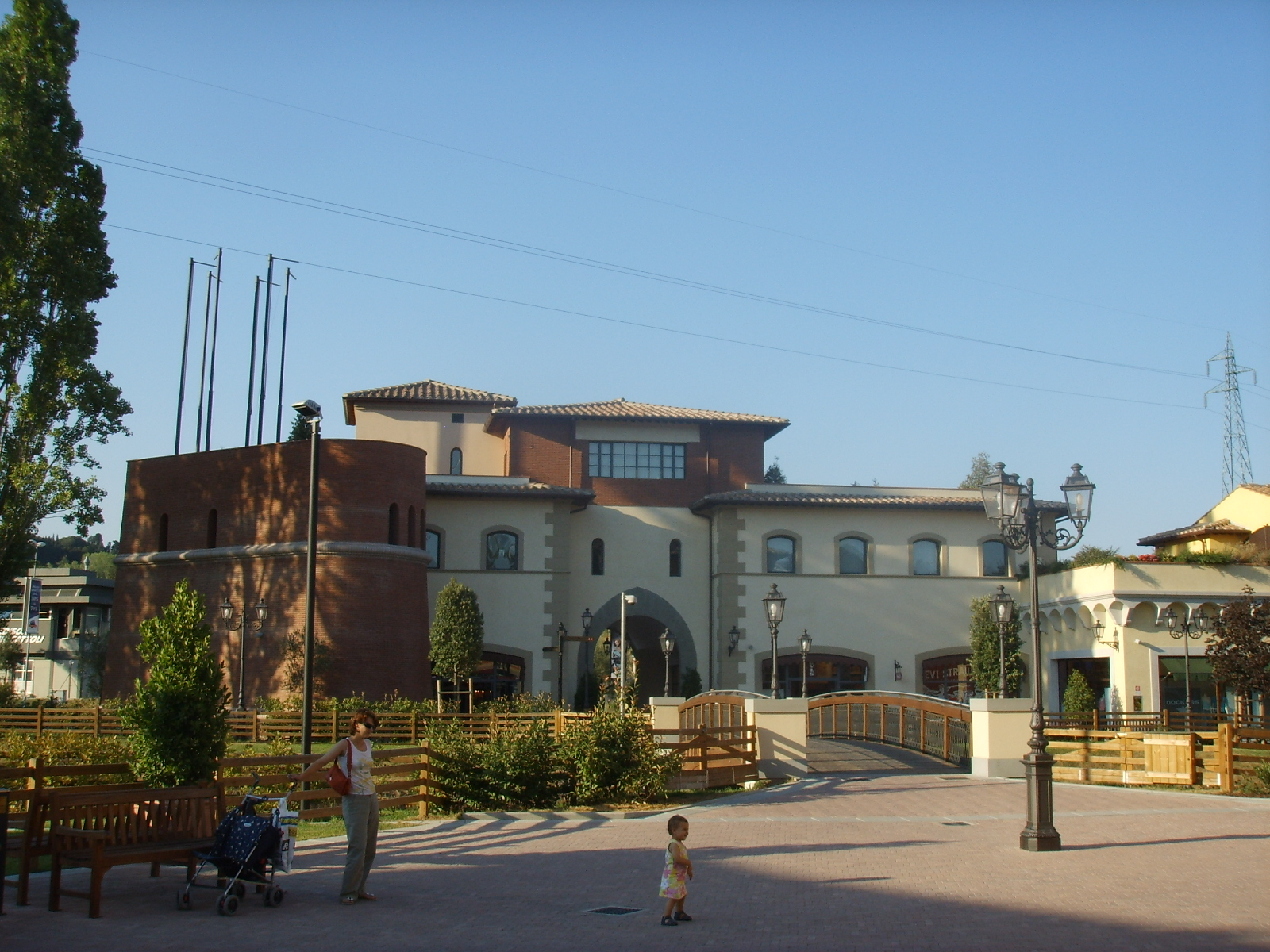 Barberino outlet